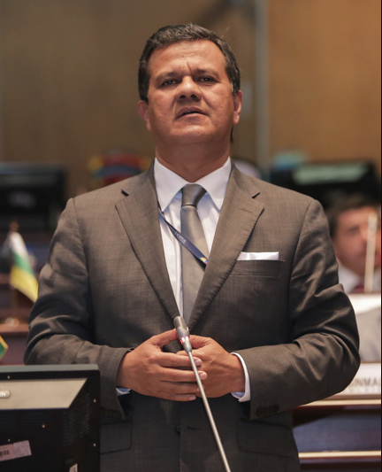 Eliseo Azuero. Cropped from File:Primera Sesión Parlamentaria de Posesión de las y los Asambleístas para el Período Legislativo 2017-2021 (34659548475).jpg